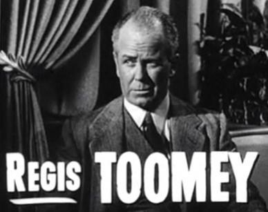 Regis Toomey in Cry Danger (1951) - trailer (cropped screenshot)